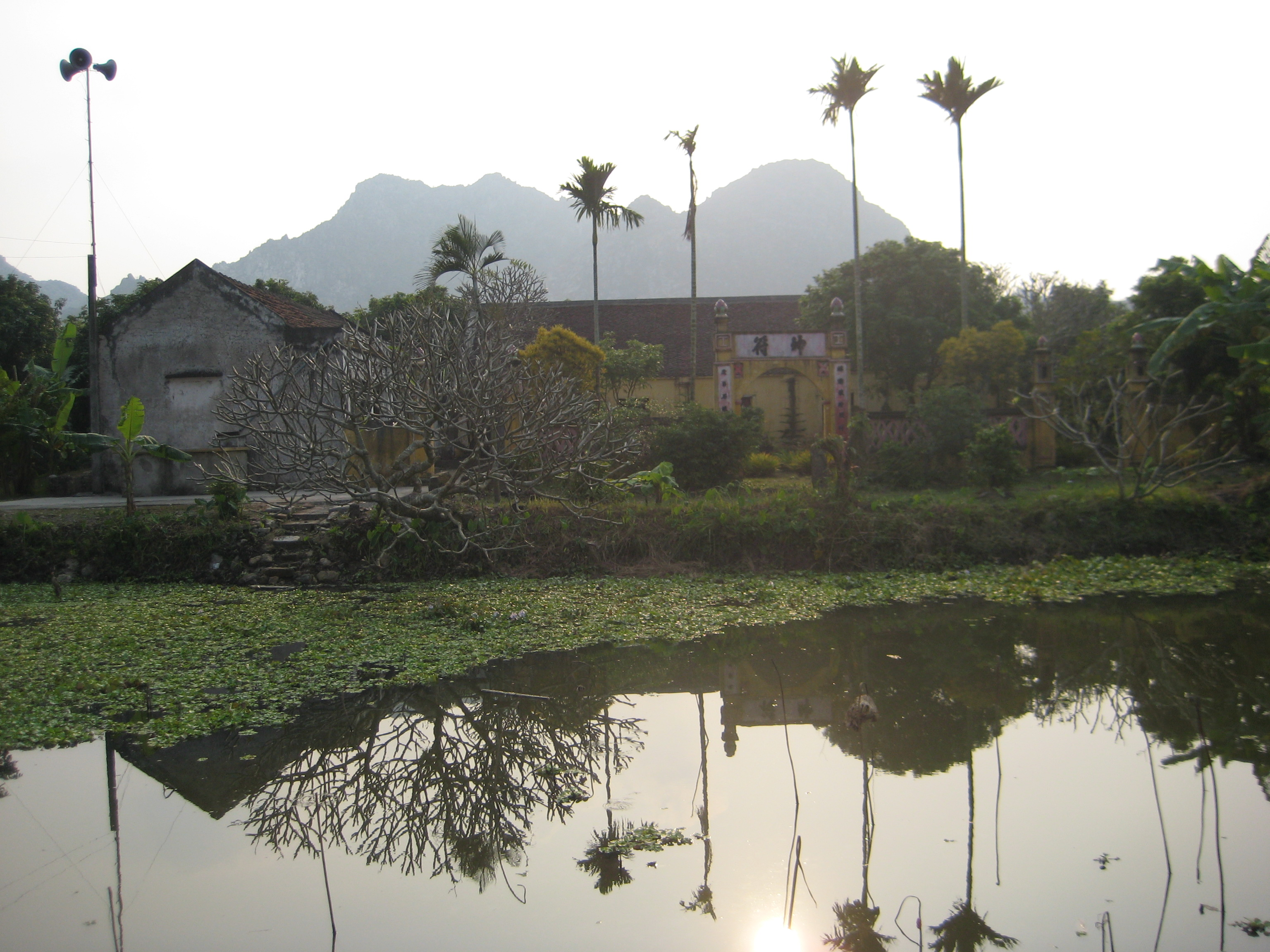 Ap Lang temple - Than Phu gate